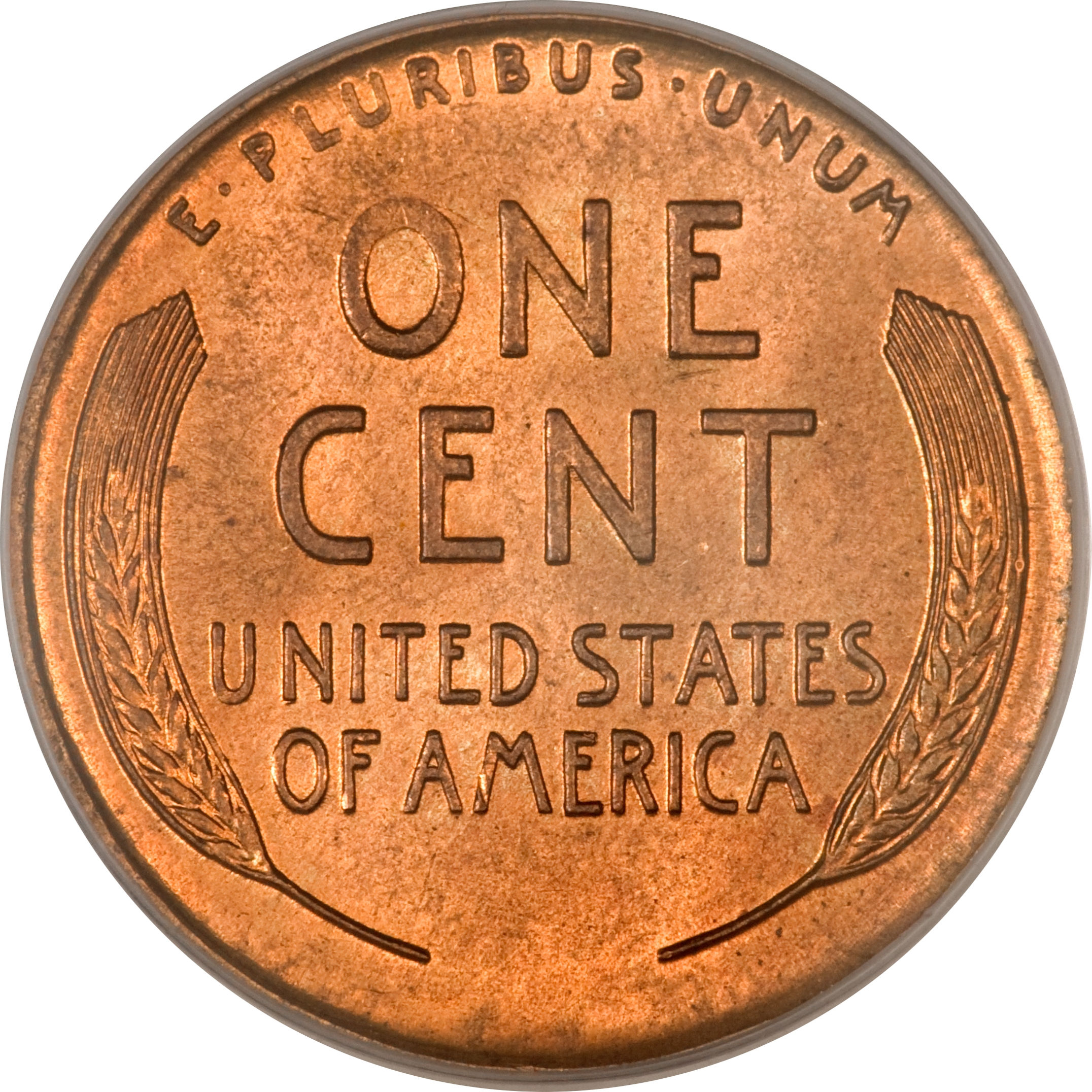 United States One Cent Coin from 1935